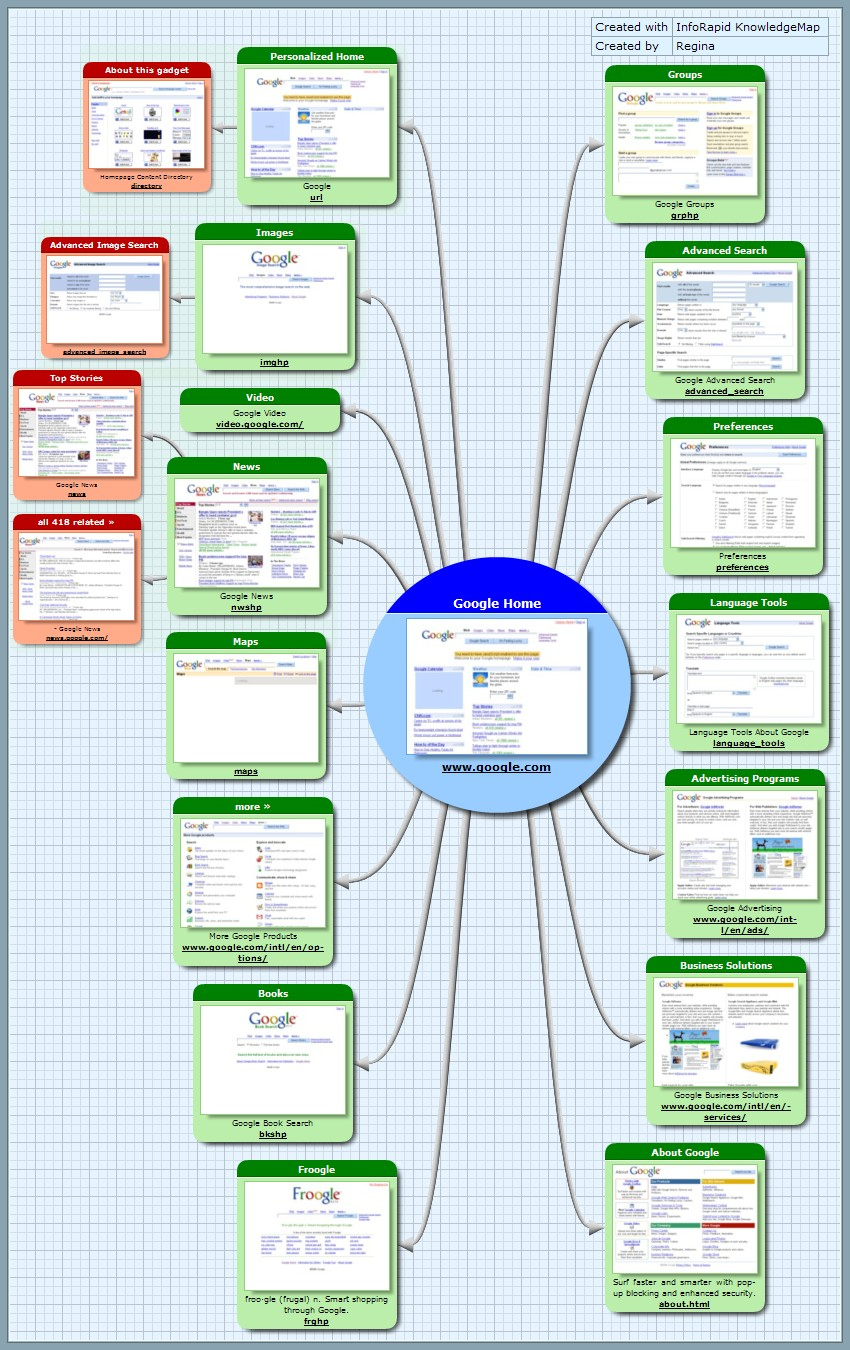 I have created the sitemap by myself with the program InfoRapid KnowledgeMap.